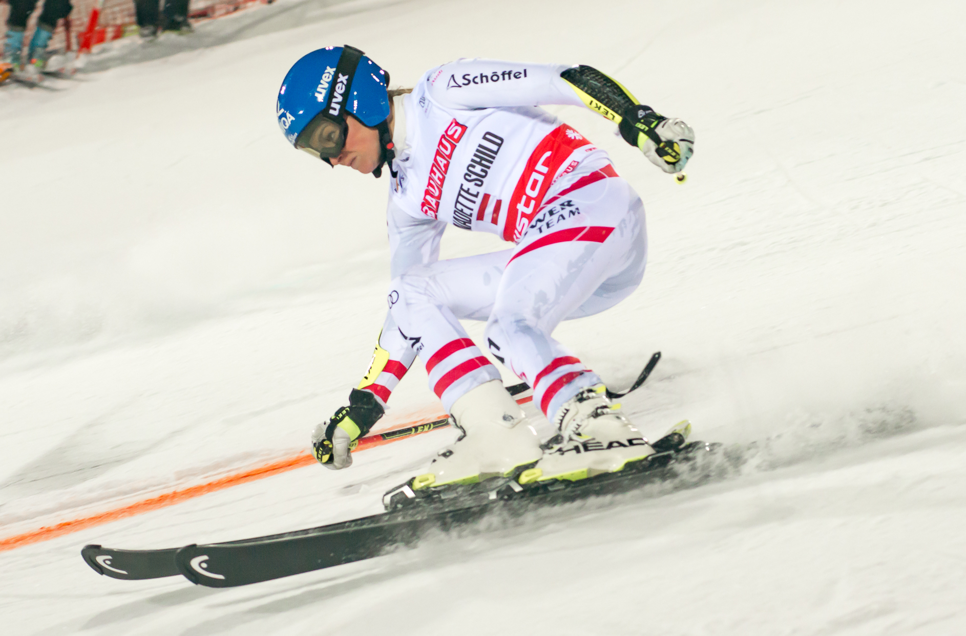 Bernadette Schild Photo by Roland Osbeck